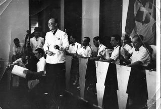 Barzizza family archive. Pippo Barzizza concert in Florence. 1940.